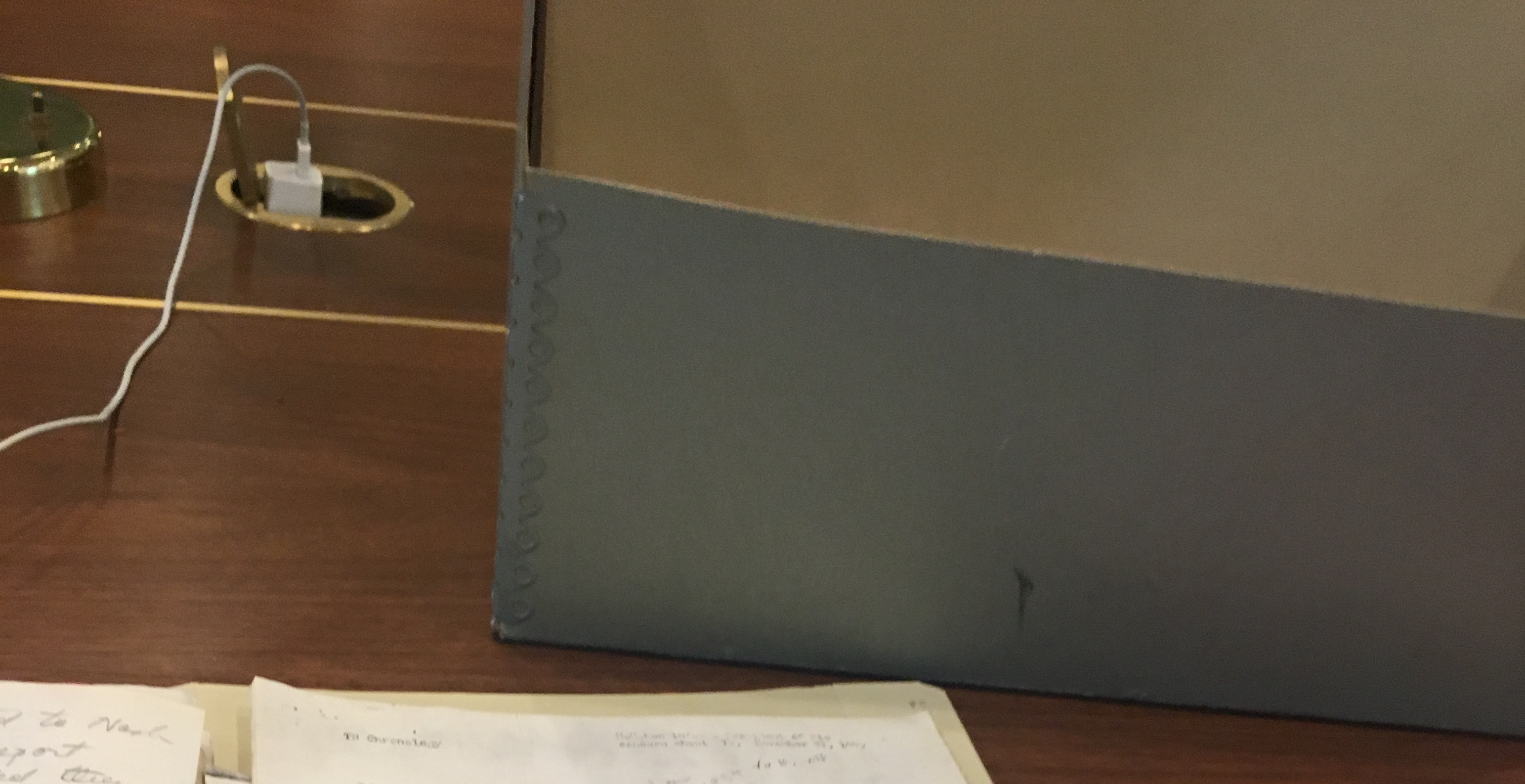 Partial scene from the American Philosophical Society Library Hall reading room, as seen from the perspective of a researcher in May 2019. A box containing requested document folders has been delivered to the table and a document in one of the folders is being looked at, as an electronic device is being charged.